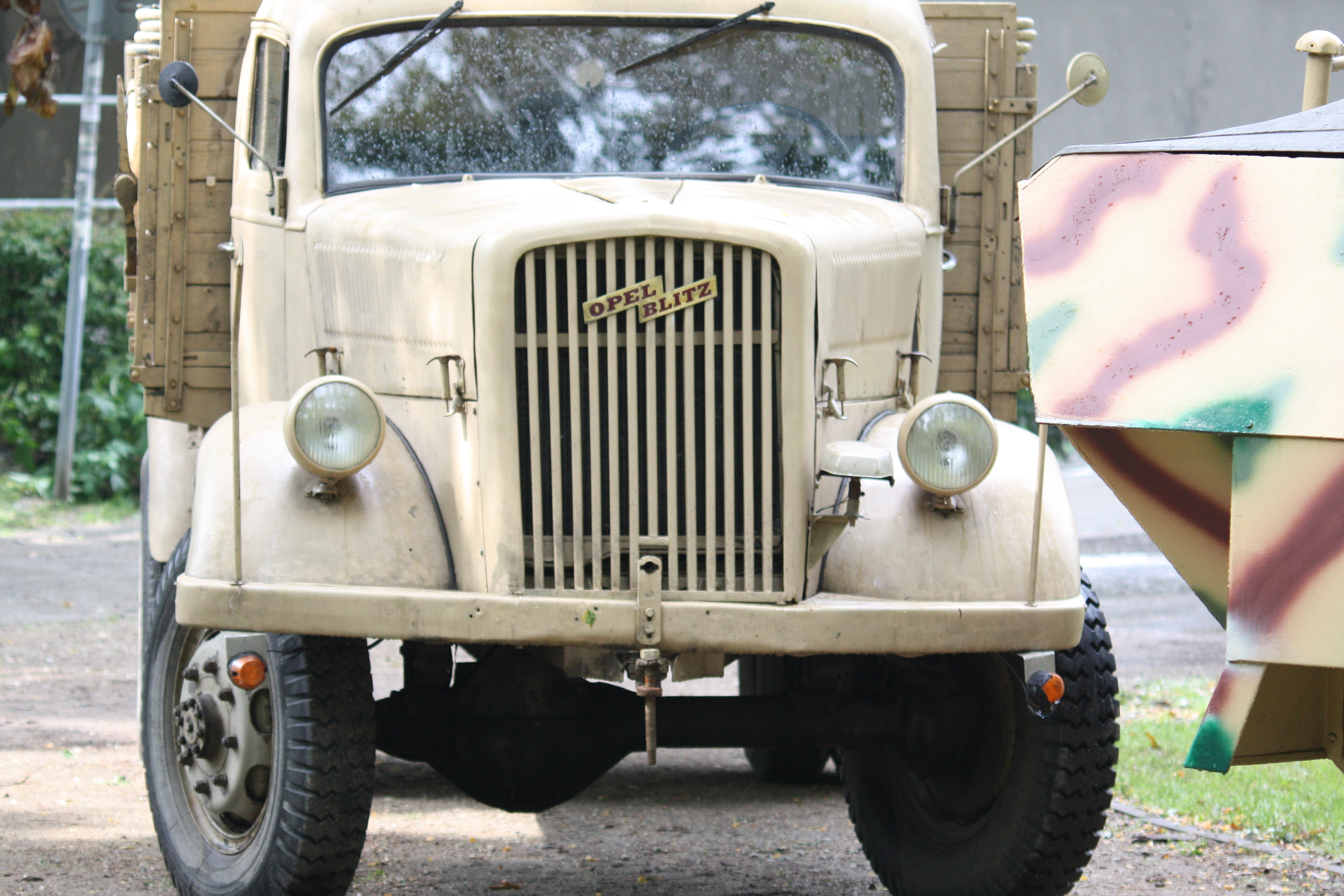 Warsaw Uprising reenactments - Mokotów'44